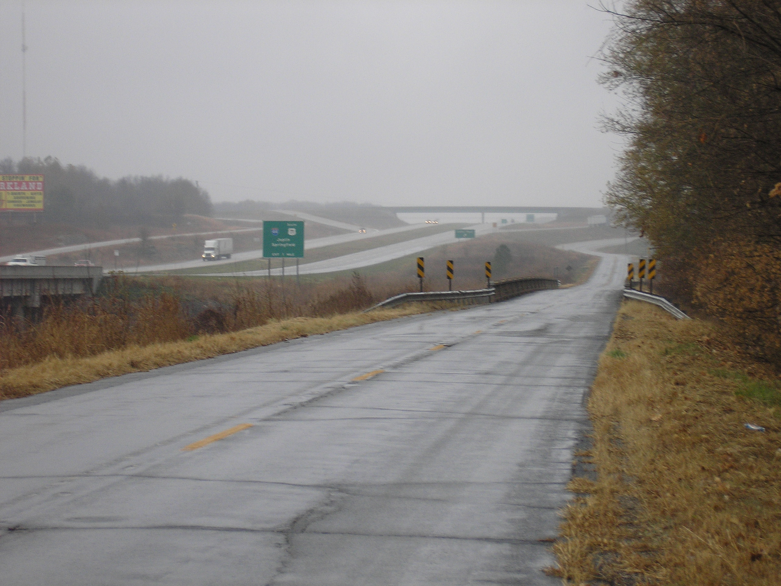 A section of former Alternate US 71 near Carthage, Missouri. Self-taken photo.